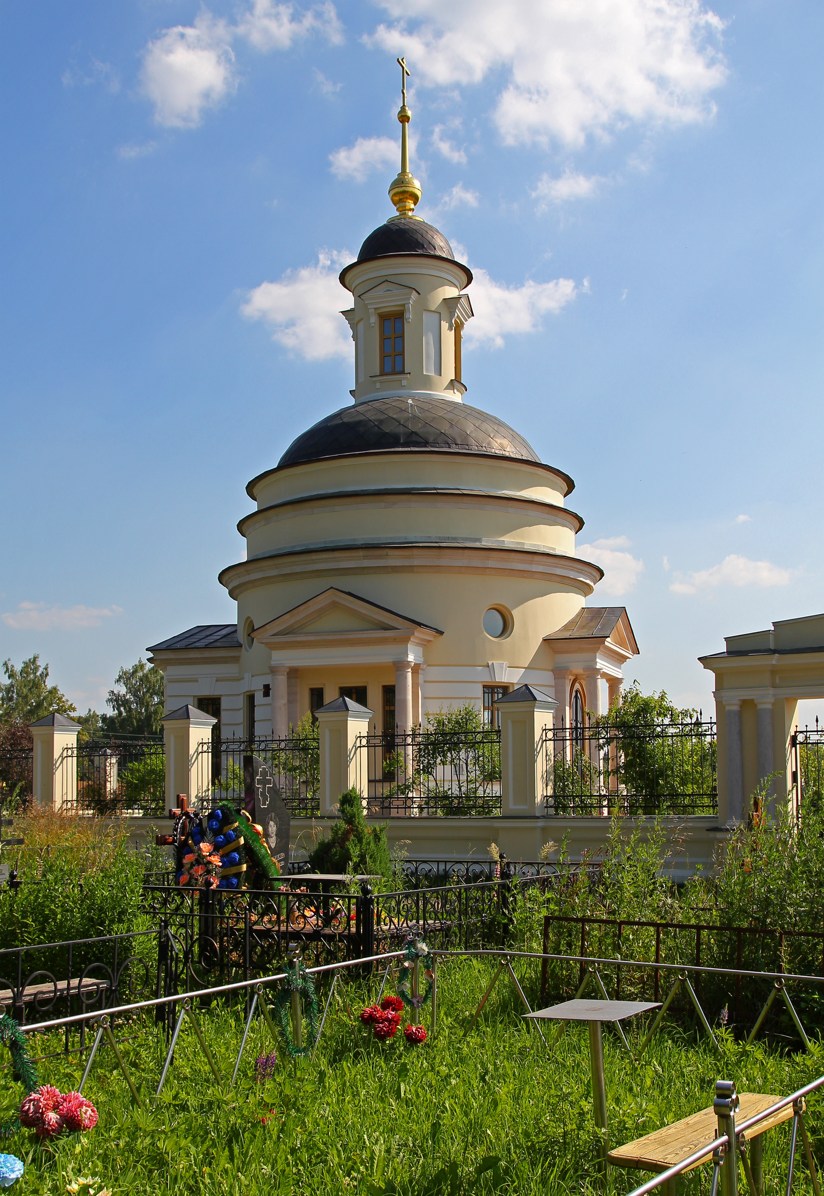 Cemetery chapel of St. Tamara in Anosino (Moscow Oblast, Russia)